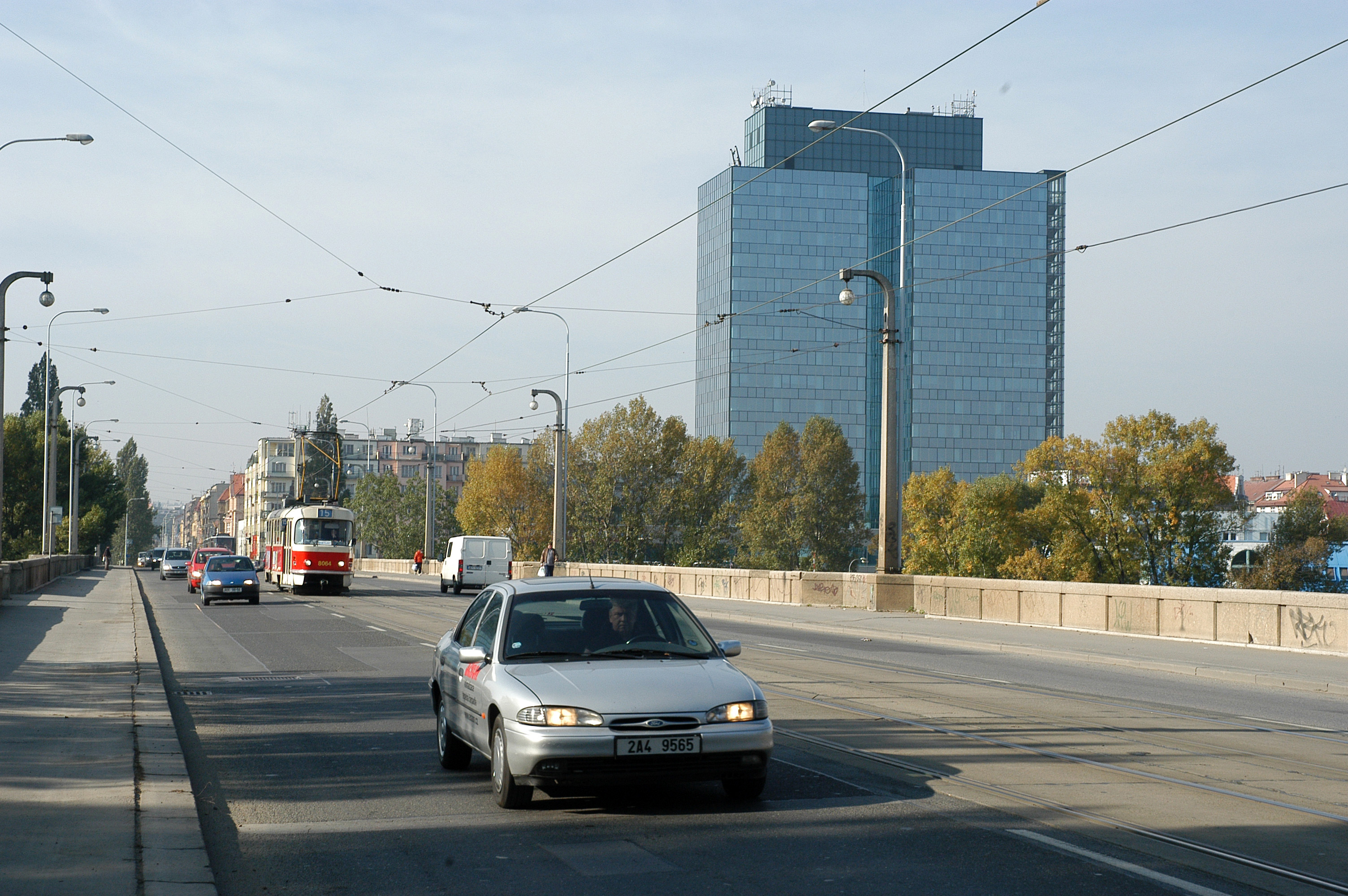 Libeň Bridge (Libeňský most) over the Vltava River in Prague, Czech Republic. Dělnická Street in Holešovice district in the background.